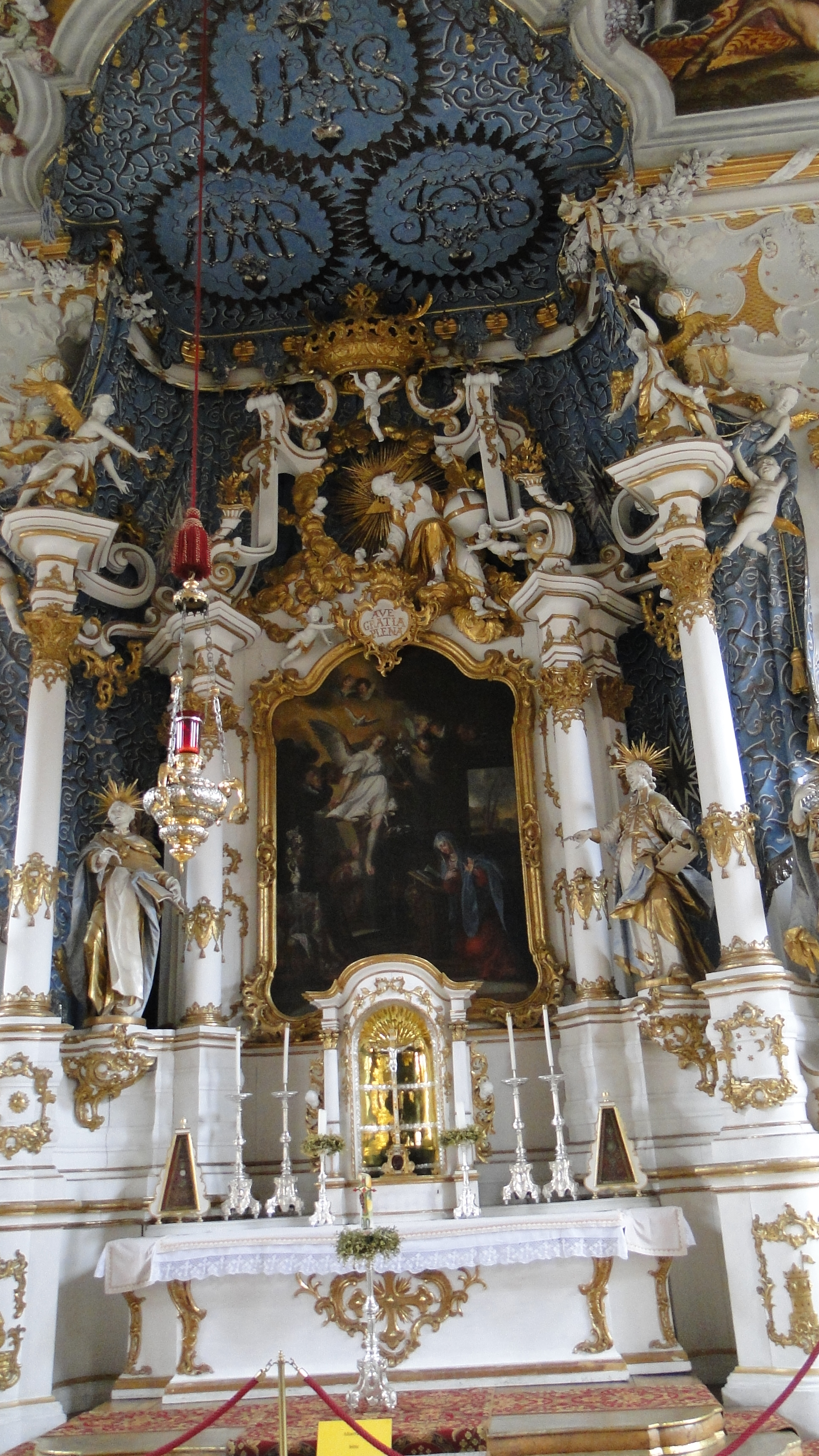 High altar of the church of St. Mary of the Victory in Ingolstadt (Germany)